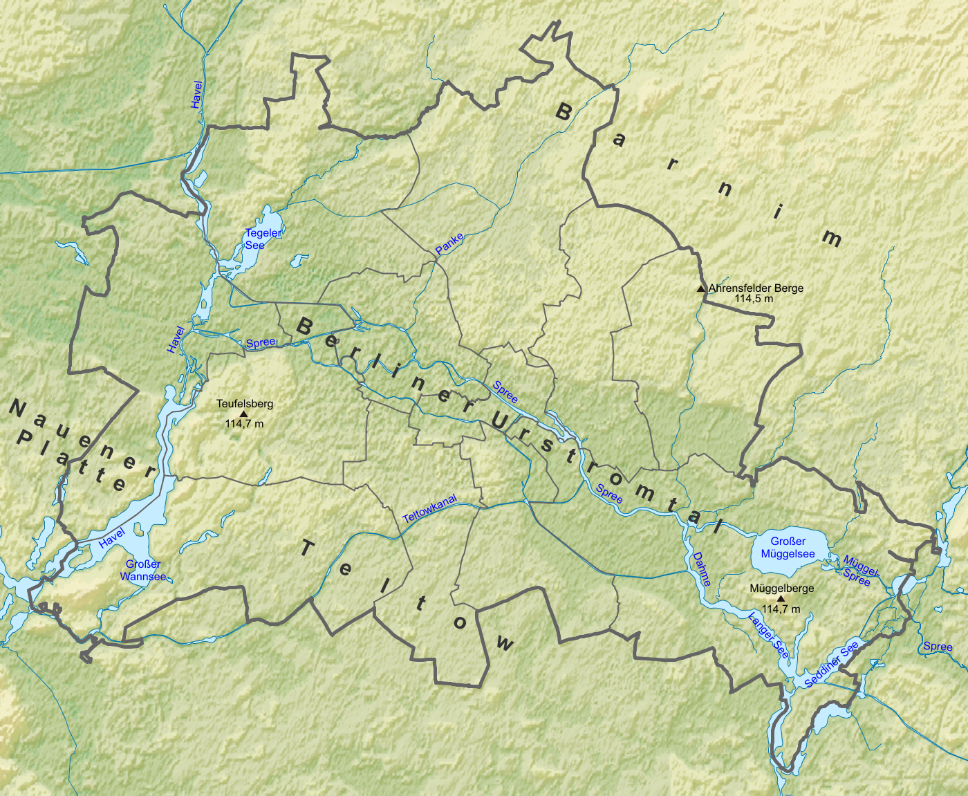 Location map Berlin, Germany. Geographic limits of the map: * N: 52,684707° N * S: 52,327157° N * W: 13,066864° O * E: 13,781318° O